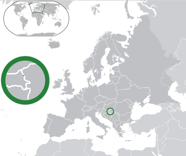 Liberland (dark green) / Europe (dark grey)